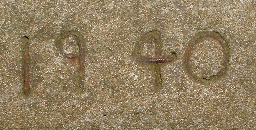 Date marked embrasure in British WWII fortification: 1940 in ferrous wire embedded in the concrete. To the best of my knowledge, this feature is unique. The fortification has a large aperture for an anti-tank gun (presumably). In addition, there are a number of standard sized embrasures such as this one and larger one for a heavy maching gun (presumably). There is a large pillbox nearby. Just south of Waverley Mill Bridge. OS reference SU870455 Photographed on 19-Mar-06.